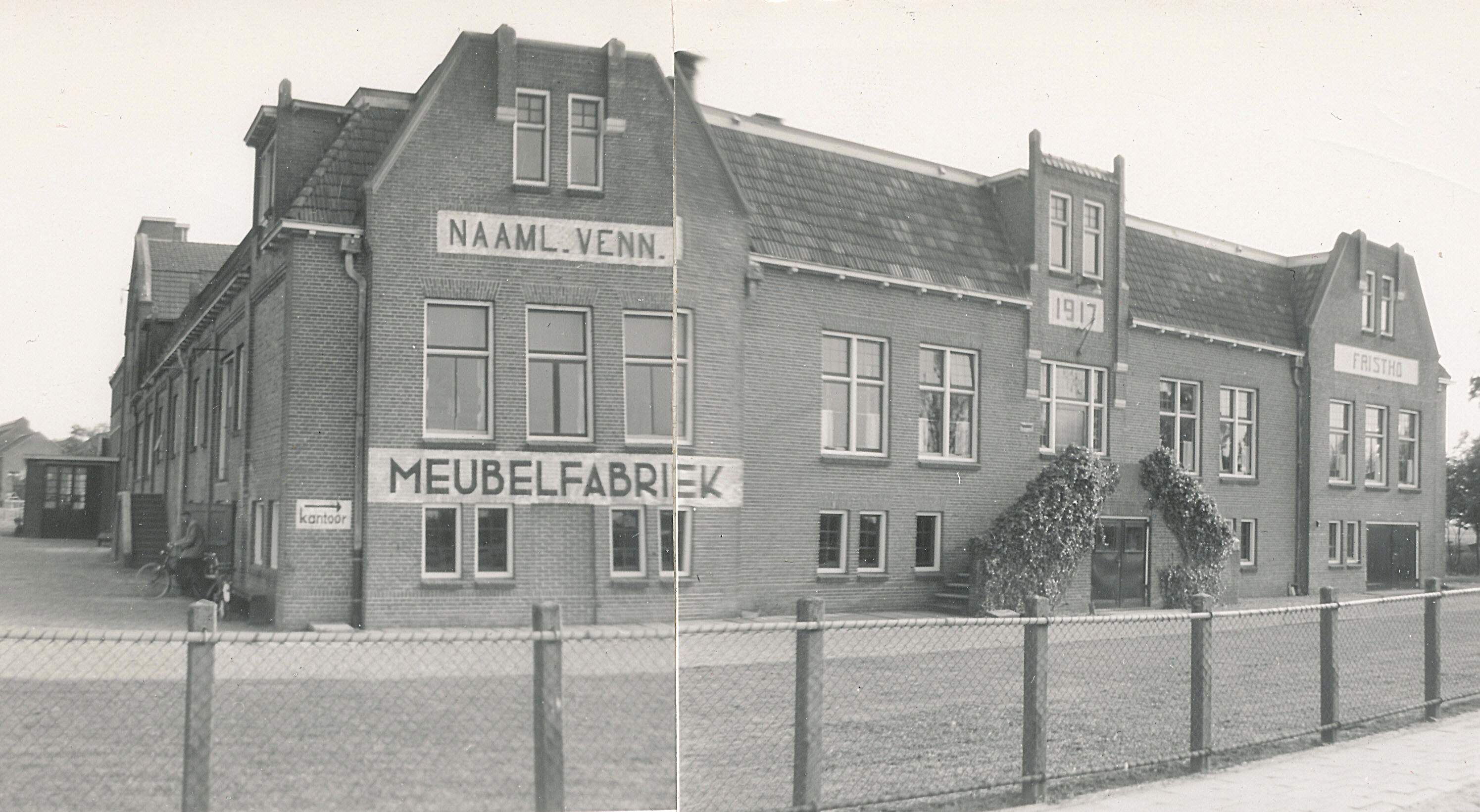 The furniture factory at Franeker 1963